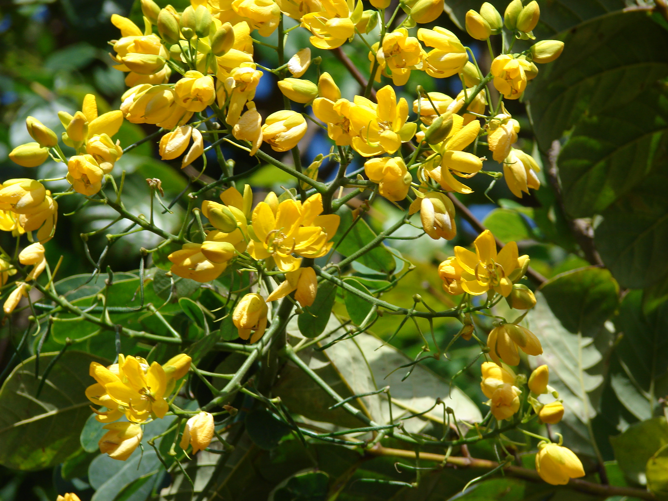 Senna pendula (leaves and flowers). Location: Maui, Haiku